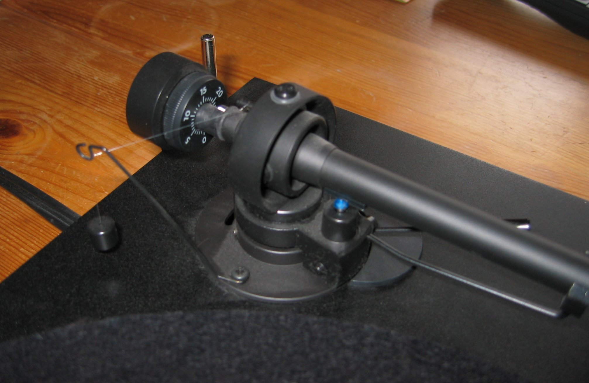 Entry-level Pro-ject turntable with stock tone arm.